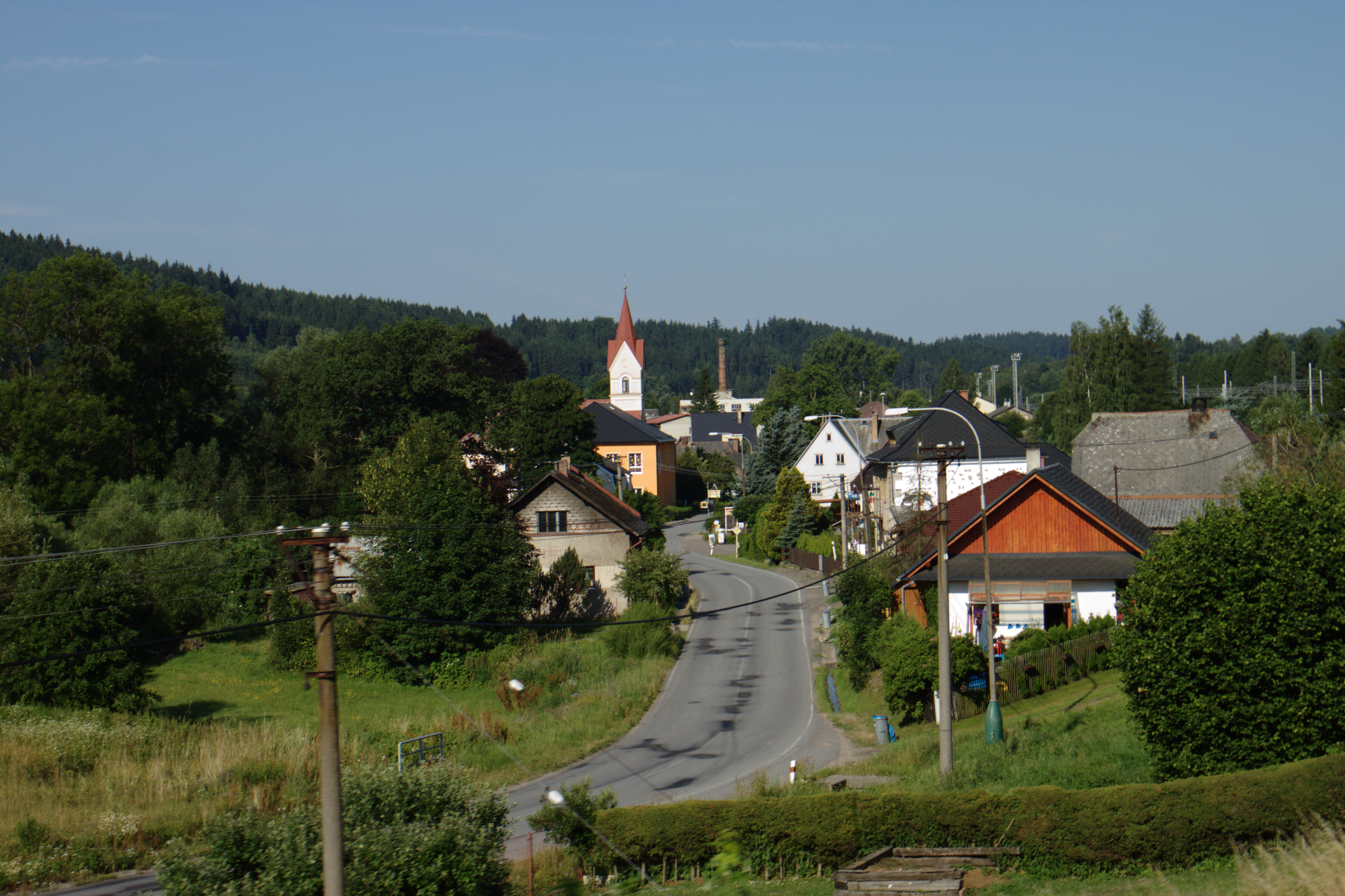 View of the town of Lichkov, Pardubice Region, CZ